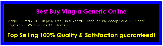 A typical spam mail from summer 2011. A click on the image in the mail would lead to an unsafe website or invoke the download of a computer virus. The image as such is harmless.